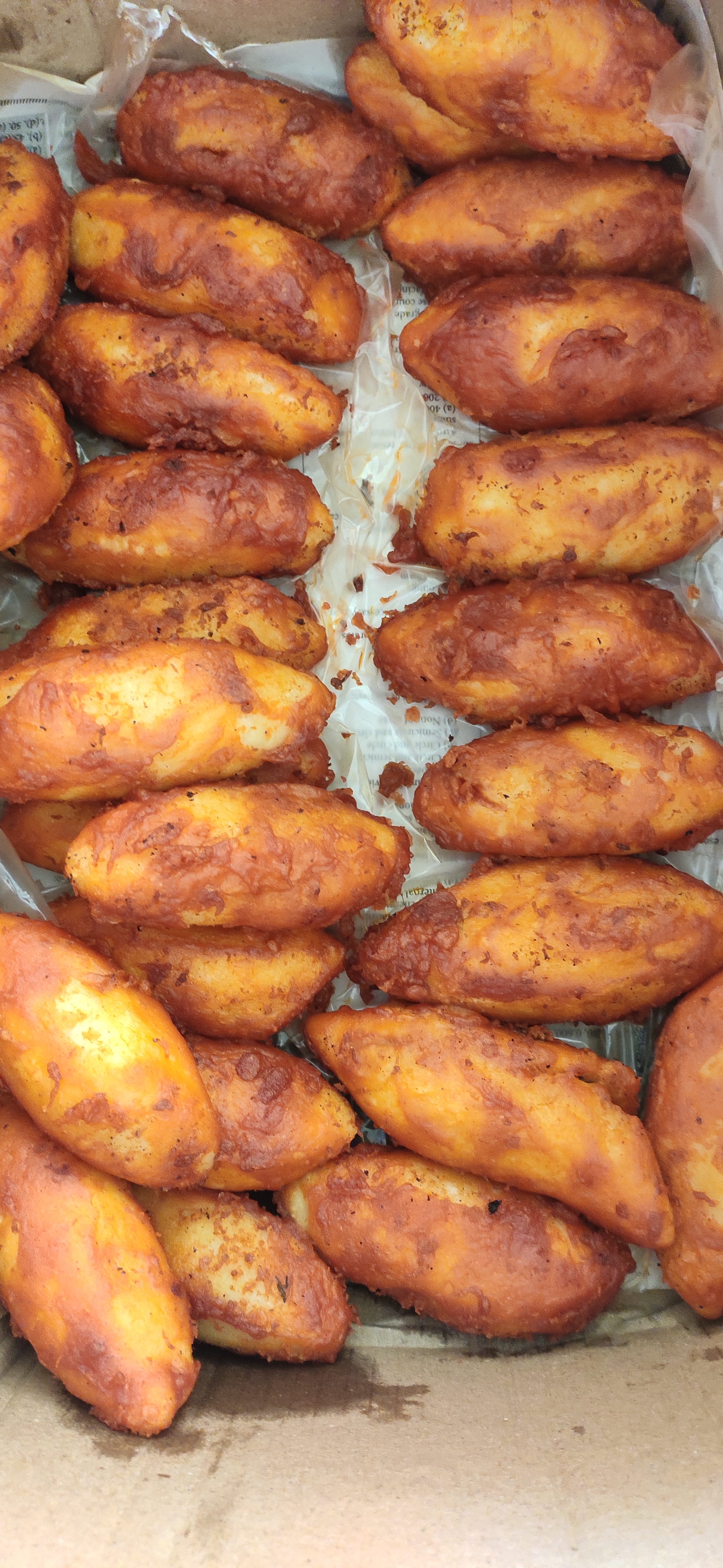 kerala snacks